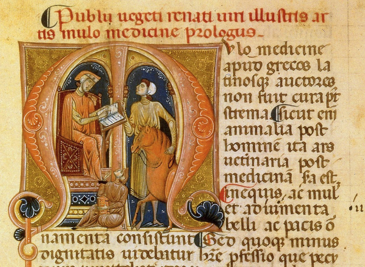 Miniature in Tractate of Mulomedicina, detail.Bibliotheca Medicea Laurenziana